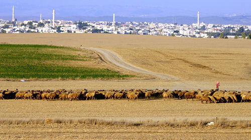 Settlements in Israel